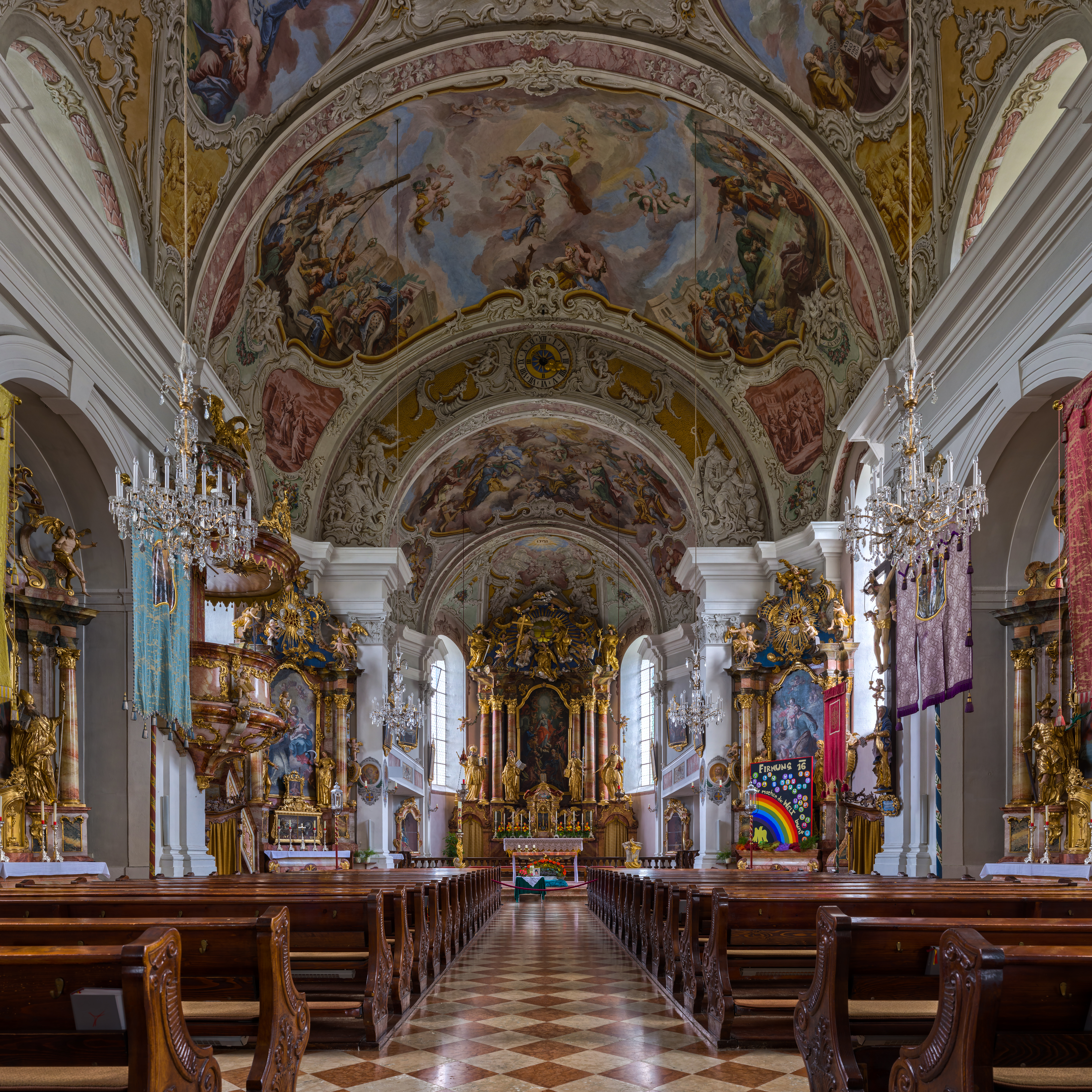 Interior of the roman-catholic parish church of Saint Peter and Paul in Söll (Tyrol, Austria).